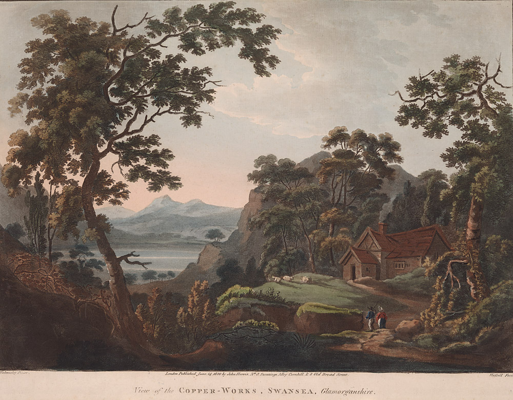 A rural scene showing the copper works at Swansea. Two figures are in the foreground.